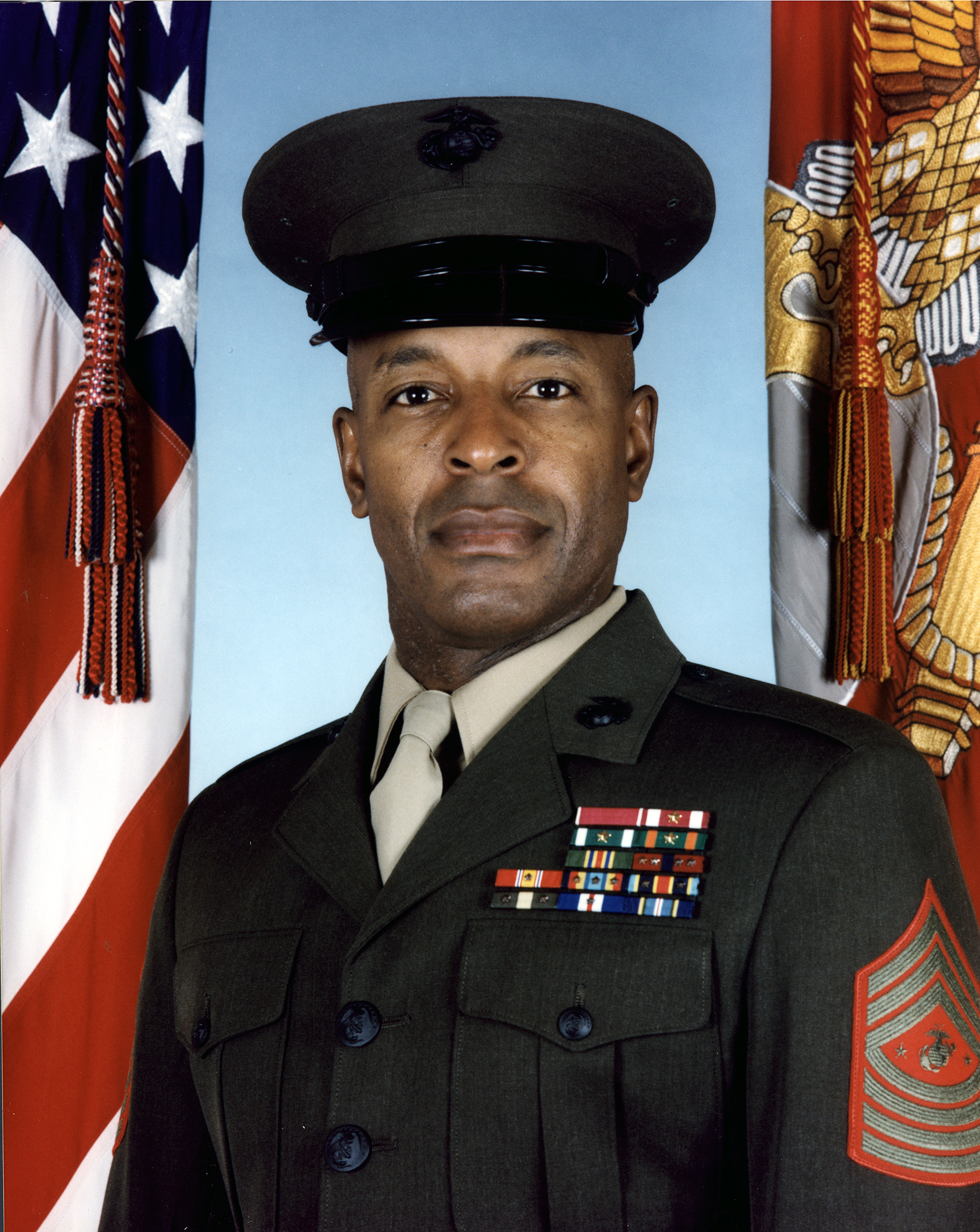 Official USMC portrait of SgtMaj Alford McMichael, as the 14th Sergeant Major of the Marine Corps.